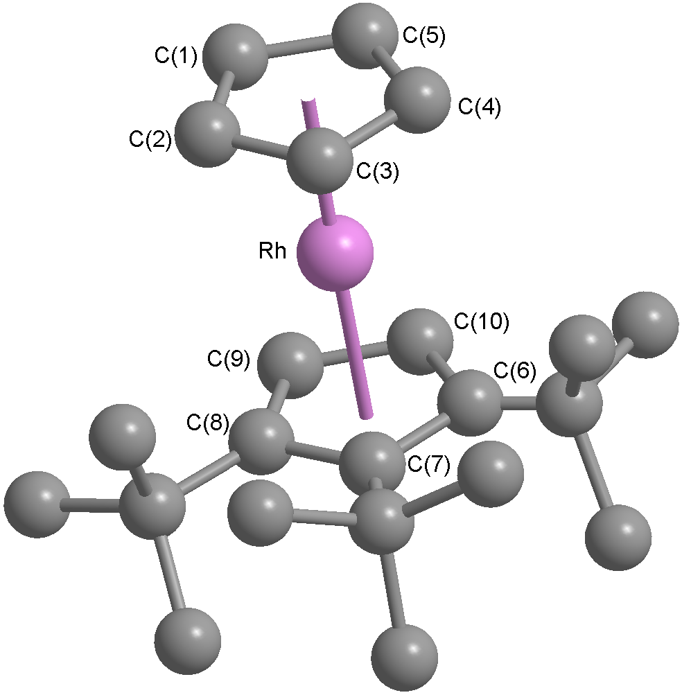 chemical structure of 1,2,3-tri-tert-butylrhodocenium - Rh(n5-C5H5)(n5-C5tBu3H2). Modeled after: Rhodocenium Complexes Bearing the 1,2,3-Tri-tert-butylcyclopentadienyl Ligand: Redox-Promoted Synthesis and Mechanistic, Structural and Computational Investigations. Bernadette T. Donovan-Merkert, C. Reid Clontz, Leslie M. Rhinehart, Howard I. Tjiong, and Clifford M. Carlin, Organometallics, 1998, 17, 1716-1724. (Not based on exact x-ray structure coordinates.)